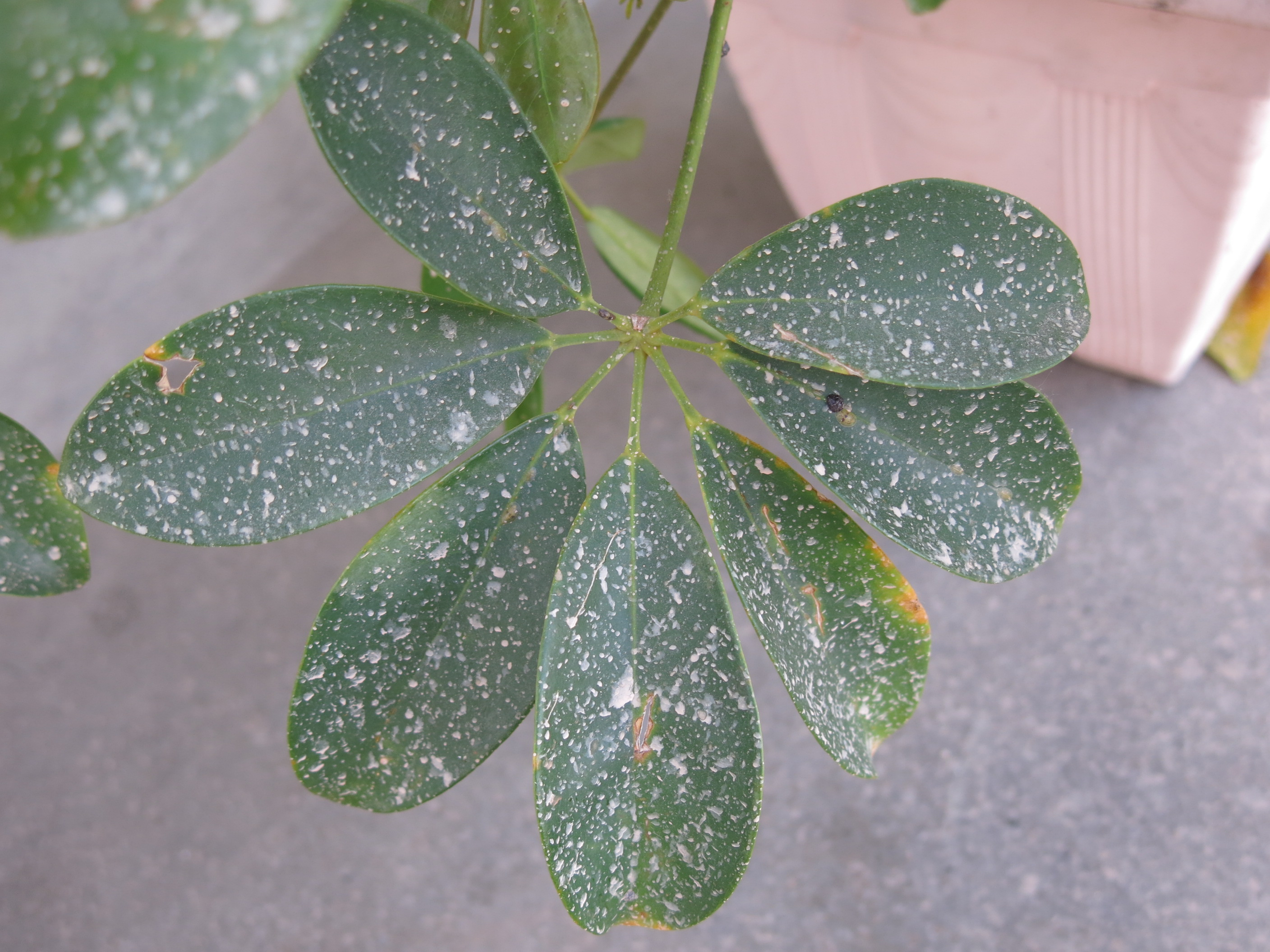 Leaf of Schefflera arboricola with spots laid by a rain with very fine sand from Sahara. Near Paris.